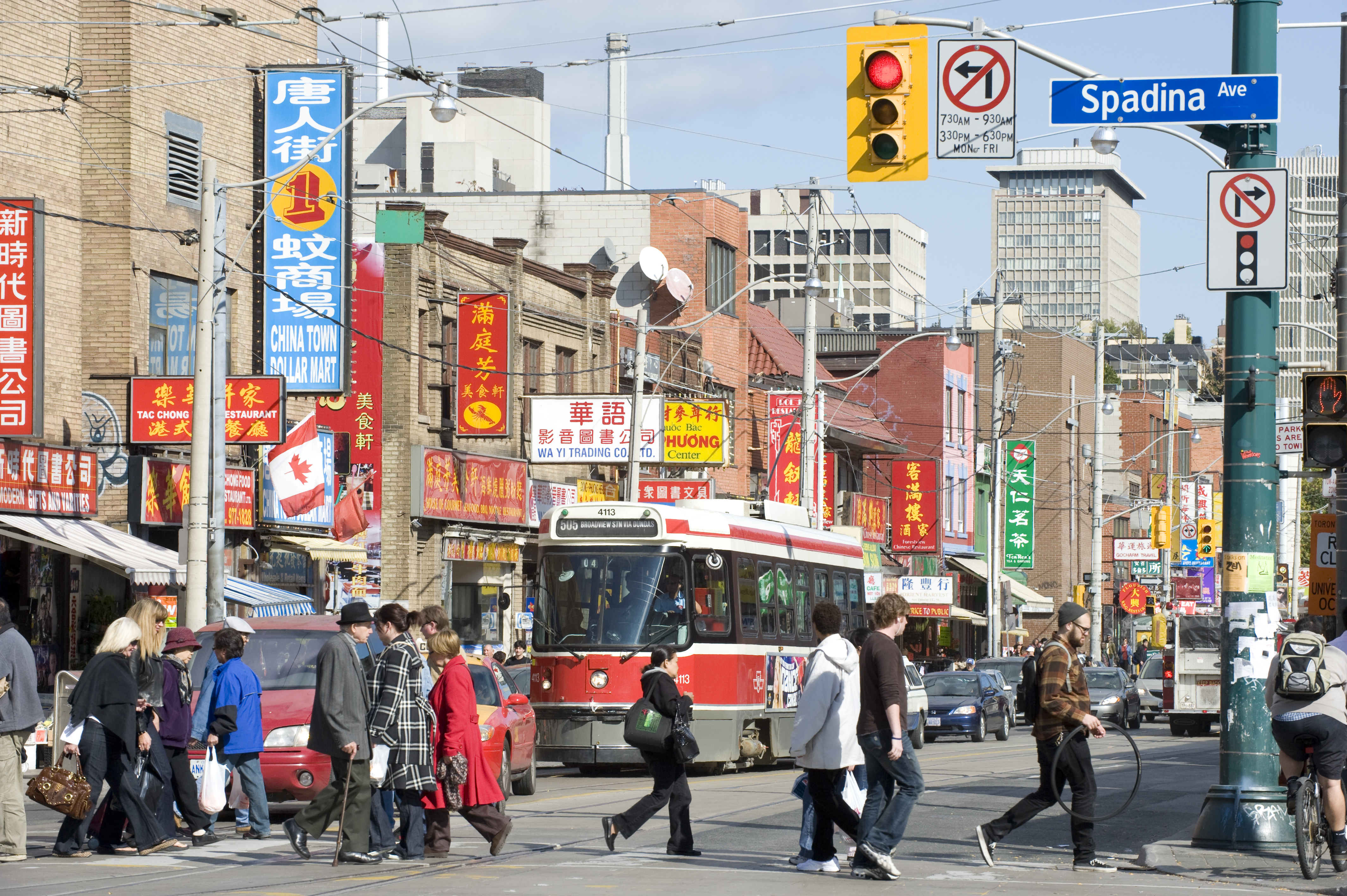 Toronto Chinatown, looking east along Dundas St from Spadina Ave, shot in 2008.